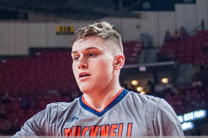 Justin Jackson of Maryland dunks vs. Bucknell